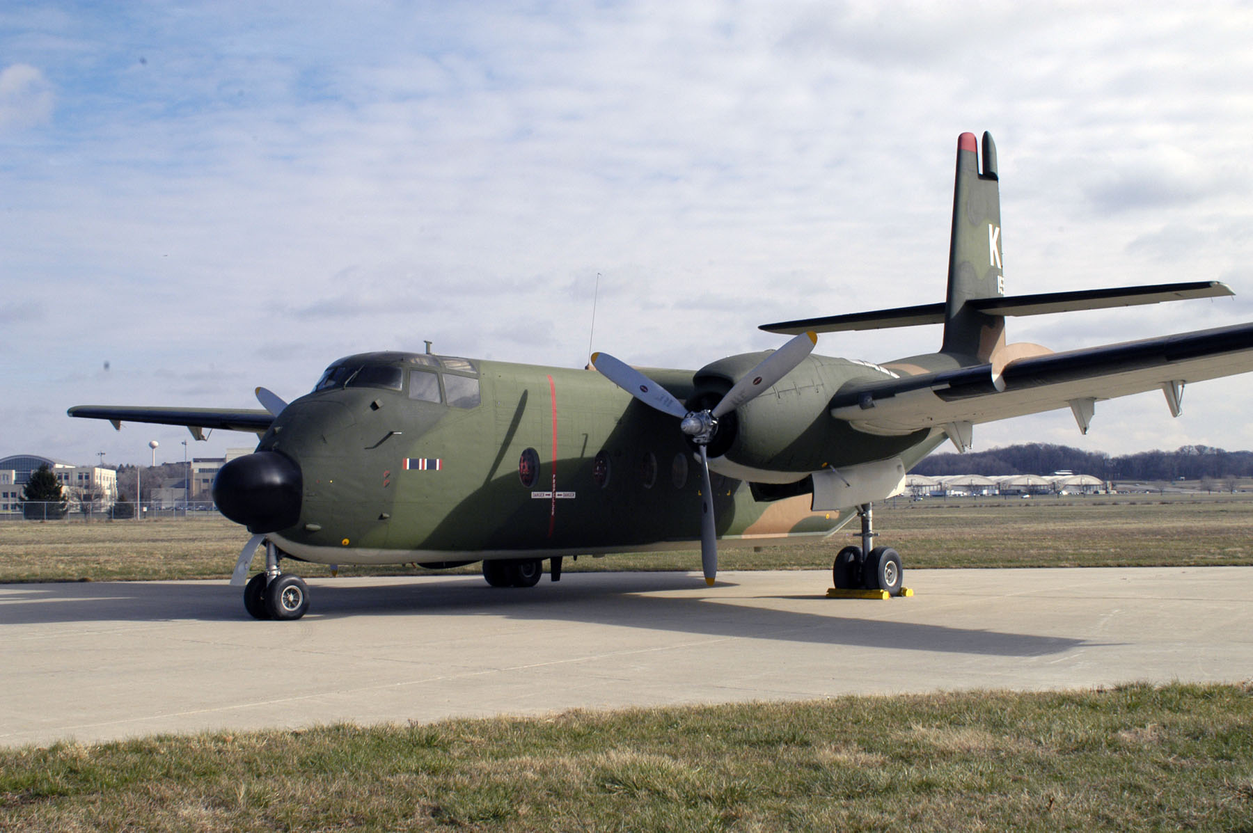 DAYTON, Ohio -- De Havilland C-7A Caribou at the National Museum of the United States Air Force. (U.S. Air Force photo)